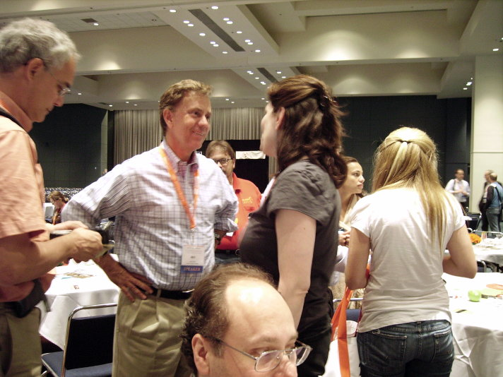 Ned Lamont hanging out after the panel about him that he showed up to unexpectedly :)